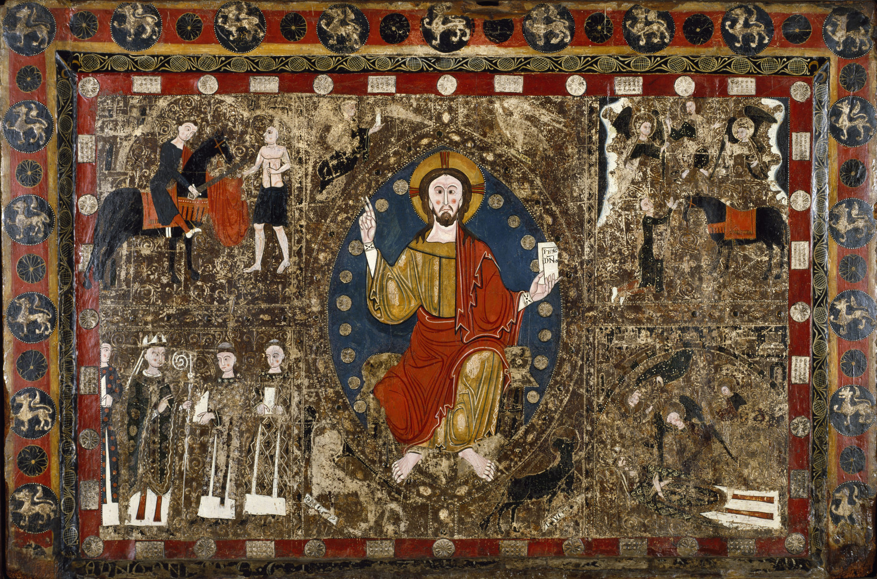 In western churches the altar itself was often richly adorned with frontals in a variety of media, including carved and painted wood, sculpted metal, carved alabaster, and richly woven textiles. The use of an altar frontal (called an antependium in Latin) probably stems from the tradition of placing altars over the tombs or shrines of saints. Many altar frontals include imagery related to the saint to whom the altar was dedicated. This mid-thirteenth century example from Catalonia, Spain, has been painted with scenes from the life of Saint Martin. Martin was a fourth-century soldier in the Roman army who abandoned that career to serve God. According to the recorded story of his life, while stationed in present-day France, Martin met a barely dressed beggar on the road and cut his own cloak in half so that the man might be clothed. That night, Martin had a dream informing him that the beggar had been Christ. Martin was then baptized, eventually became the bishop of Tours, and after his death became a widely popular saint. At the upper left of this panel, Martin, on horseback, gives half of his cloak to a beggar, while at the upper right he has a vision of Christ wearing the cloak. At the lower left, the saint is ordained bishop of Tours (in AD 372), and, at the lower right, his soul is carried to heaven by angels. These scenes have been painted on a solid panel, but the decorative borders of the work are reminiscent of textiles, which were often used as altar frontals.